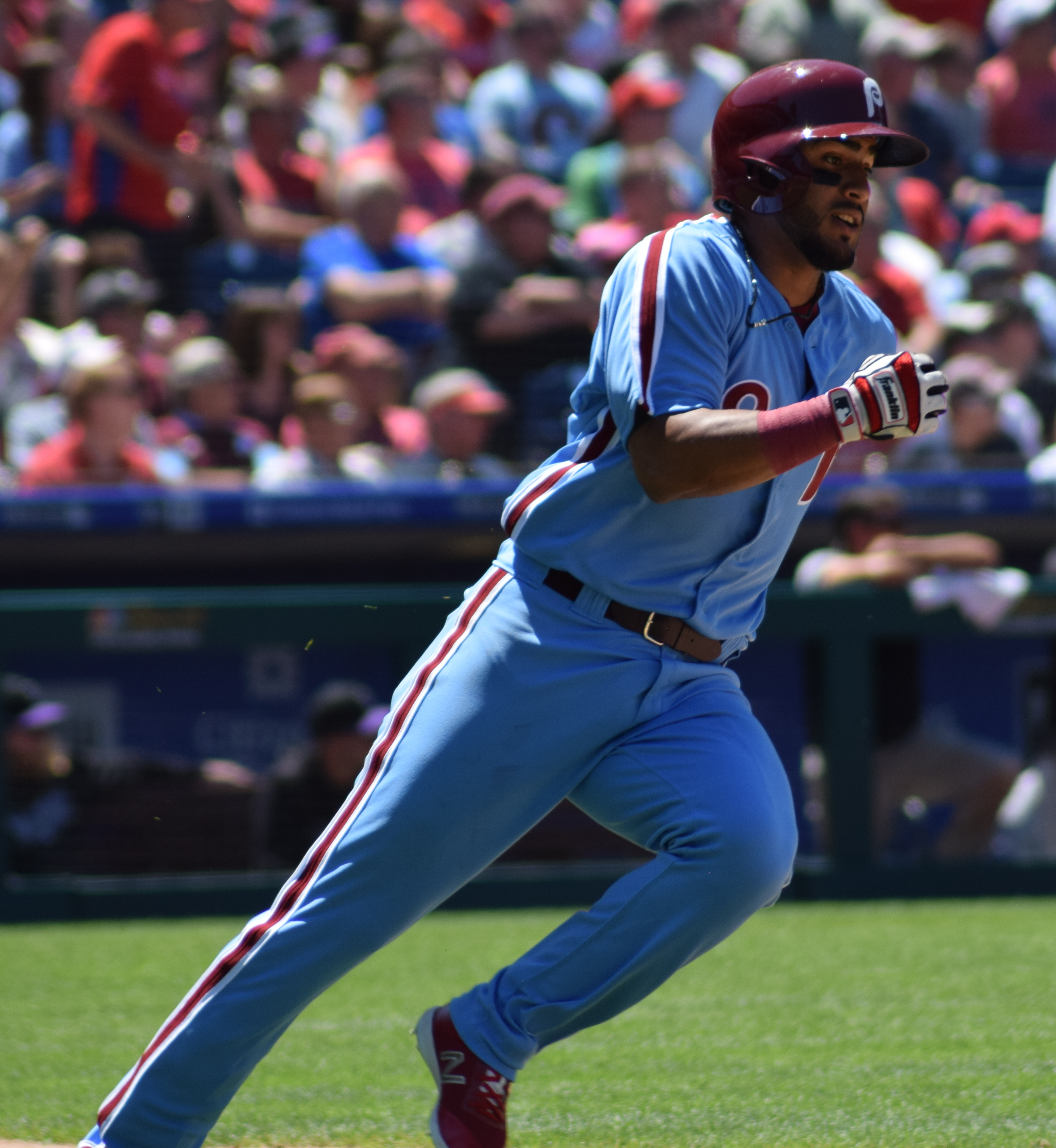 Jesmuel Valentin runs down the first base line with the Philadelphia Phillies in 2018